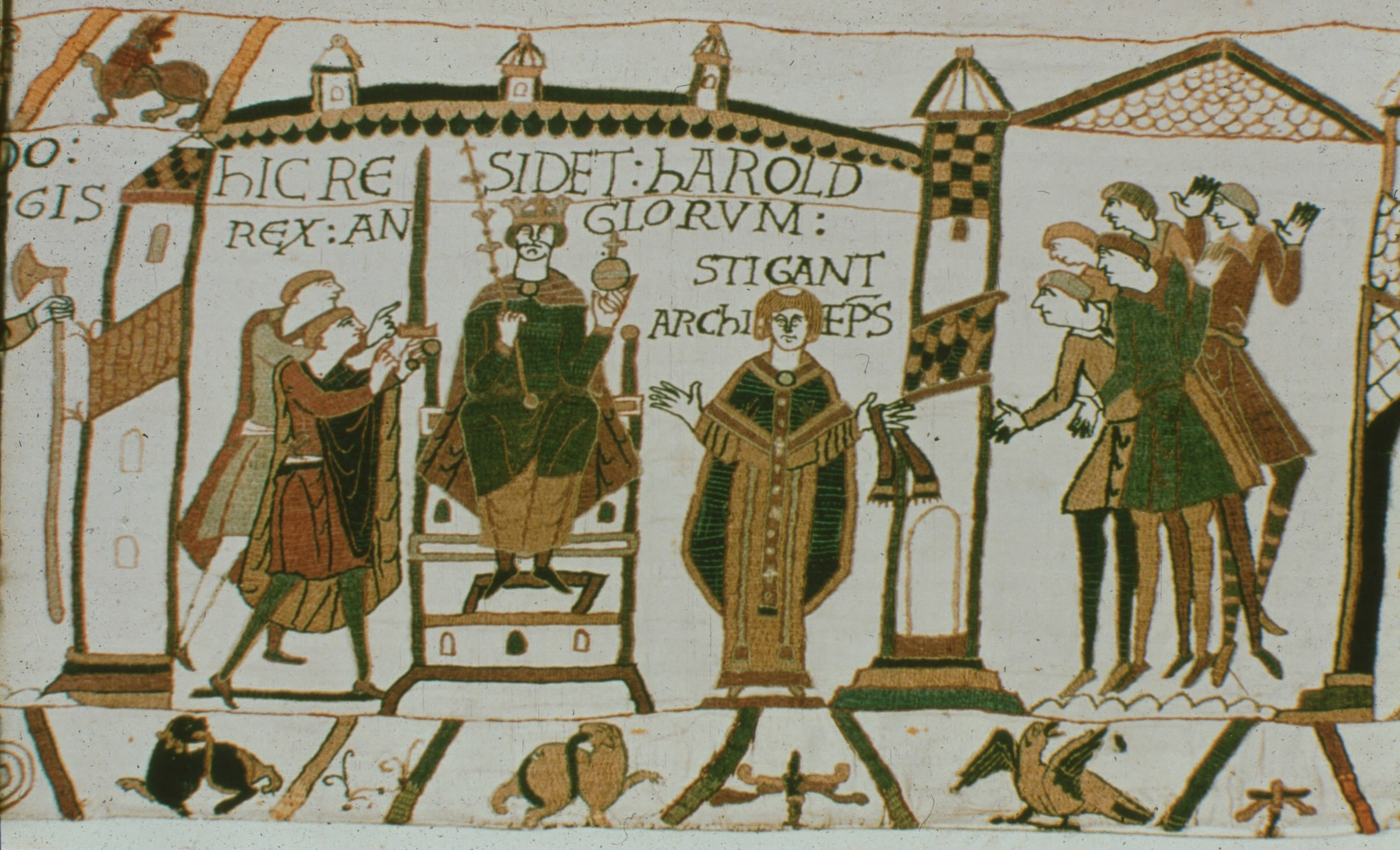 Harold and Stigand